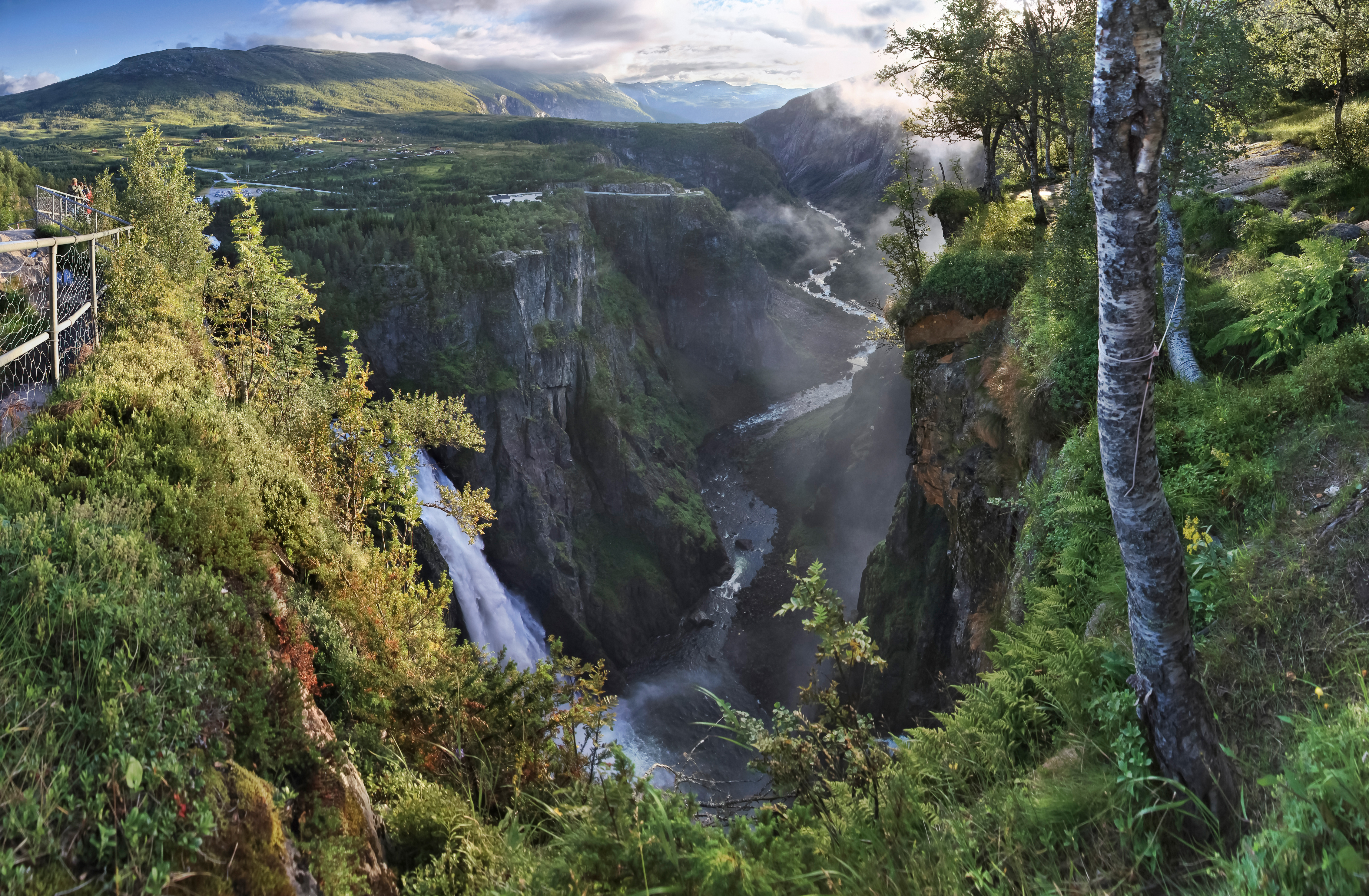 A wide evening view to Måbødalen in Eidfjord municipality, Hordaland, Norway in 2011 August. The view has been captured from the eastern end of the valley.